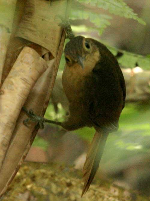 Buff-throated Foliage-gleaner (Automolus ochrolaemus) among the ferns in Costa Rica. "I got a quick glimpse of this one on a walk through the rainforest in Costa Rica. Travels singly or in pairs through lower levels of wet forest rummaging for insects, spiders, small frogs and lizards in curled dead leaves. (this as with most of my info on Costa Rica birds comes from 'A Guide to the Birds of Costa Rica' by Alexander Skutch, 1989 and I'm using the 2004-5 Checklist of Costa Rican Birds by Asociacion Ornitologica de Costa Rica for recent name changes)"